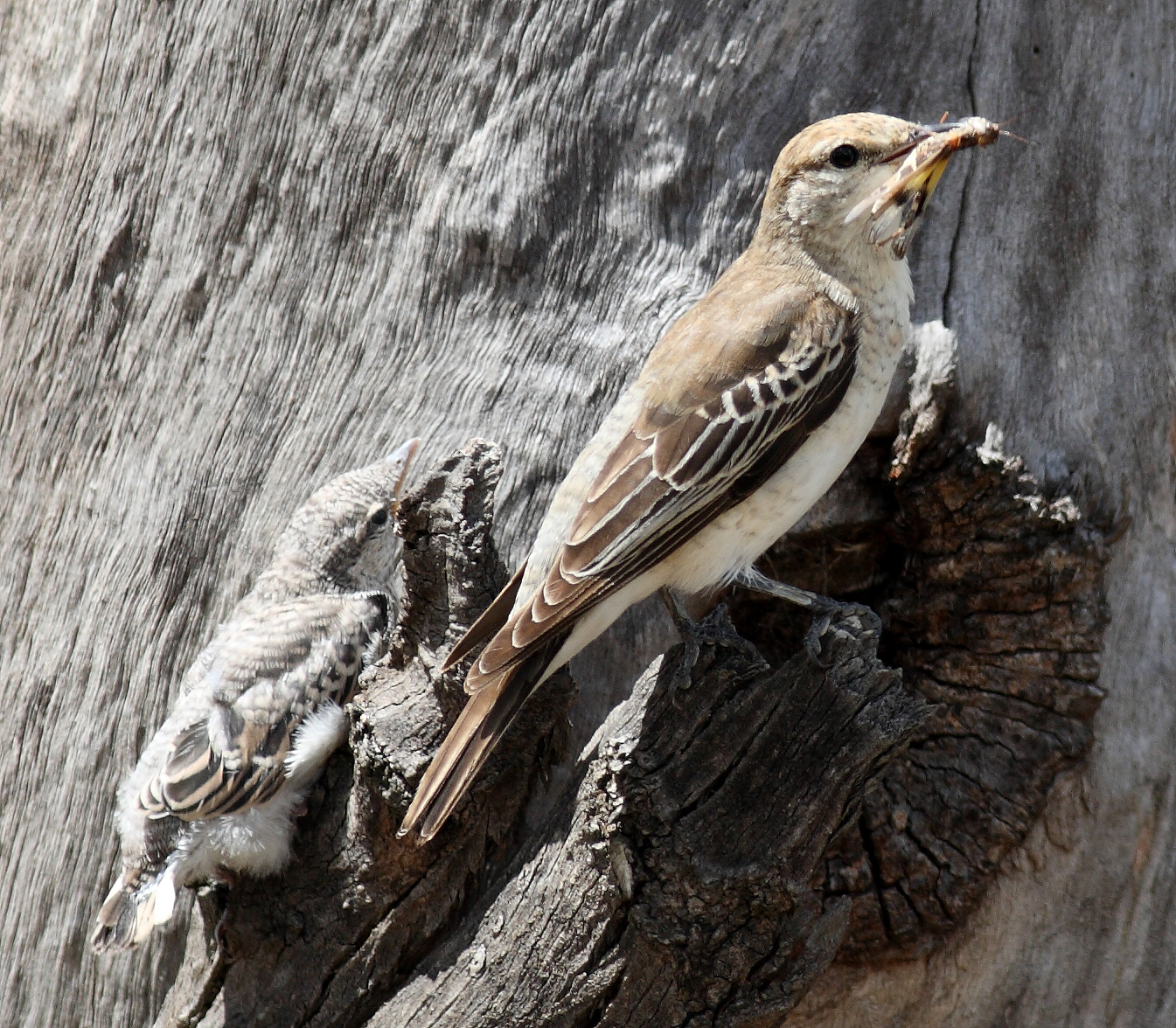 White winged triller female, Australia